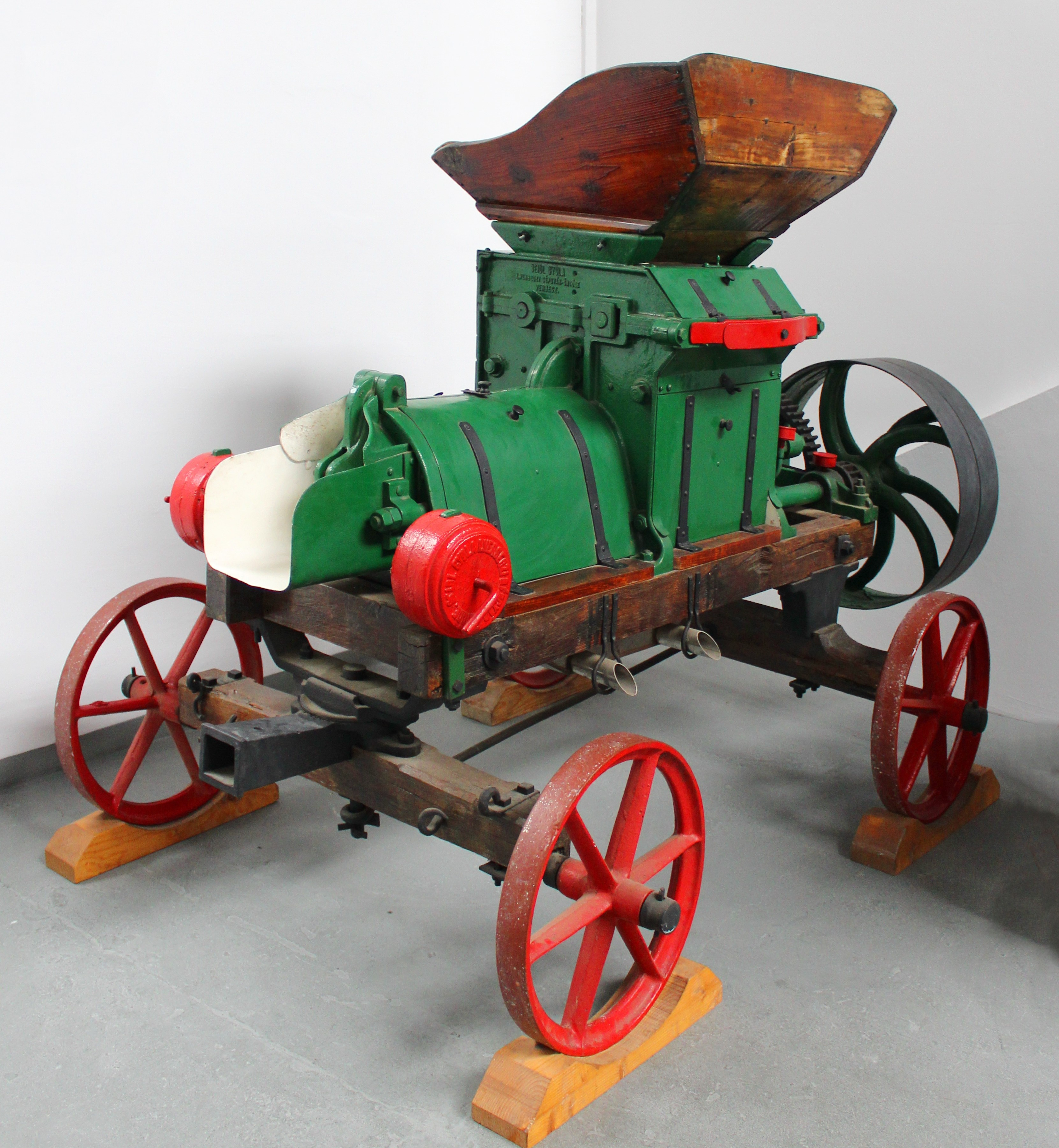 The crusher for chopping fruit and crushing grapes. It is located in Museum of Science and Technology Belgrade.